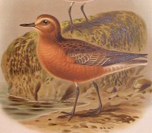 New Zealand Dotterel, Charadrius obscurus.